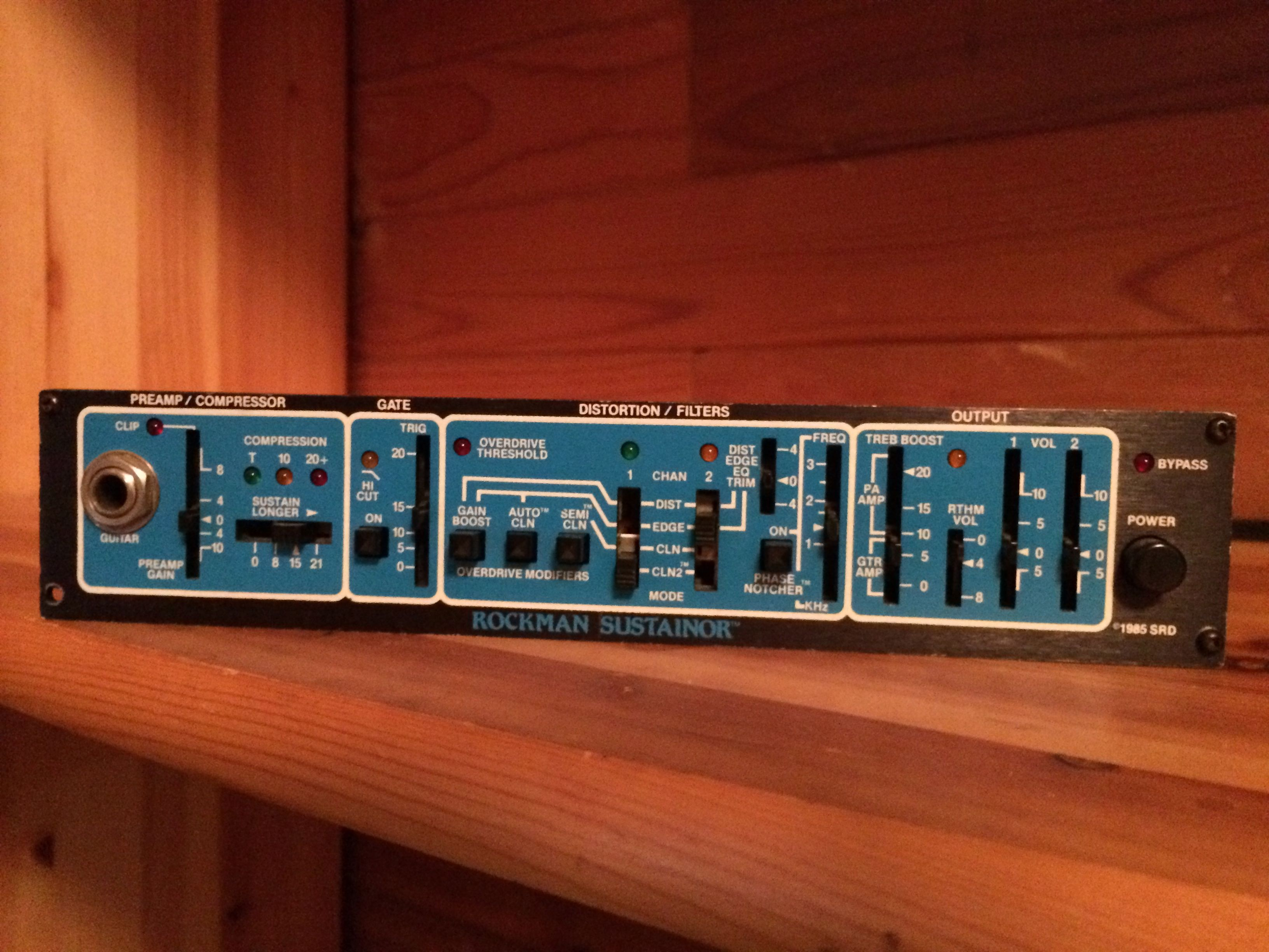 SR&D Rockman "Blue" face Sustainor